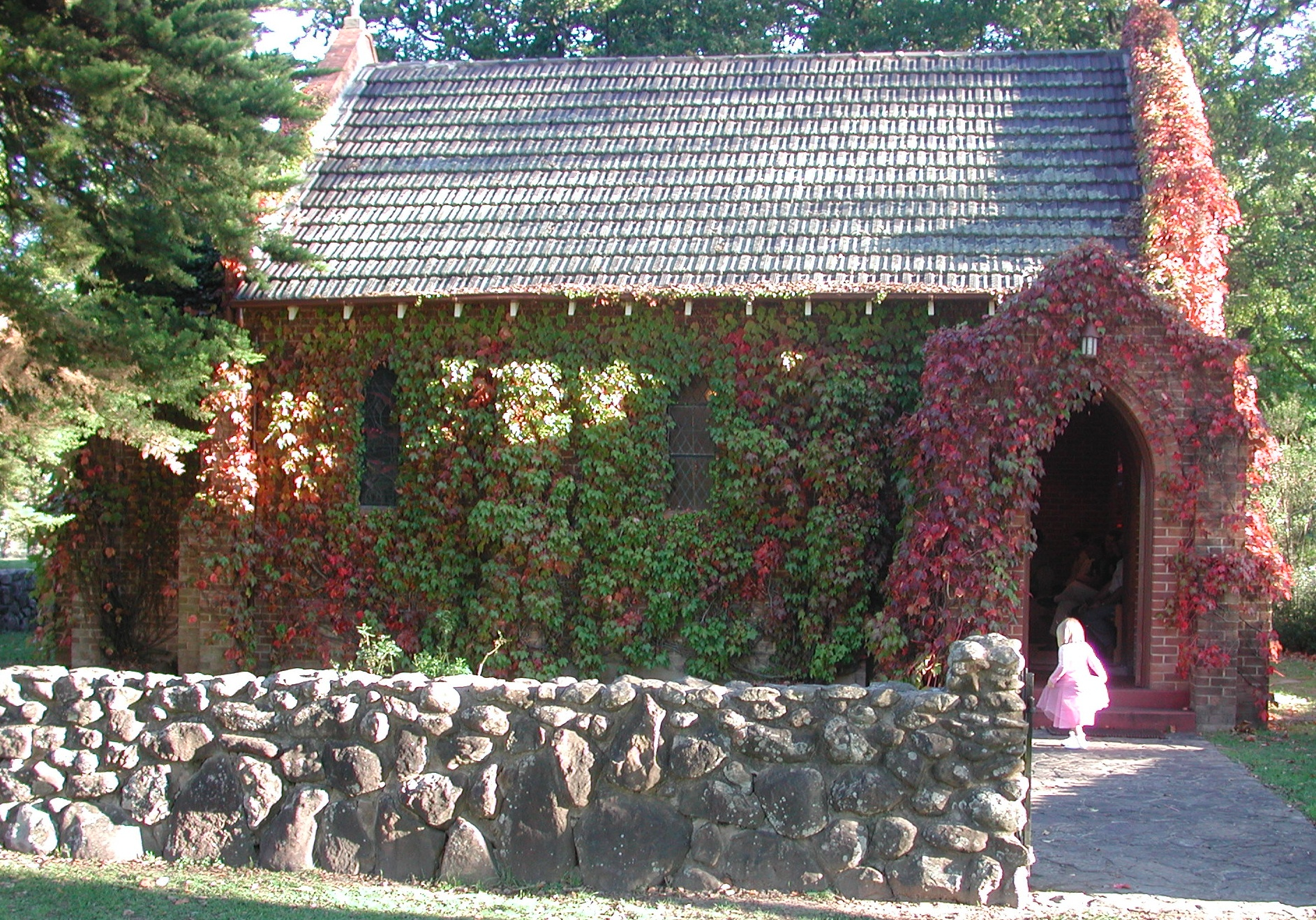 Gostwyck Chapel, Uralla